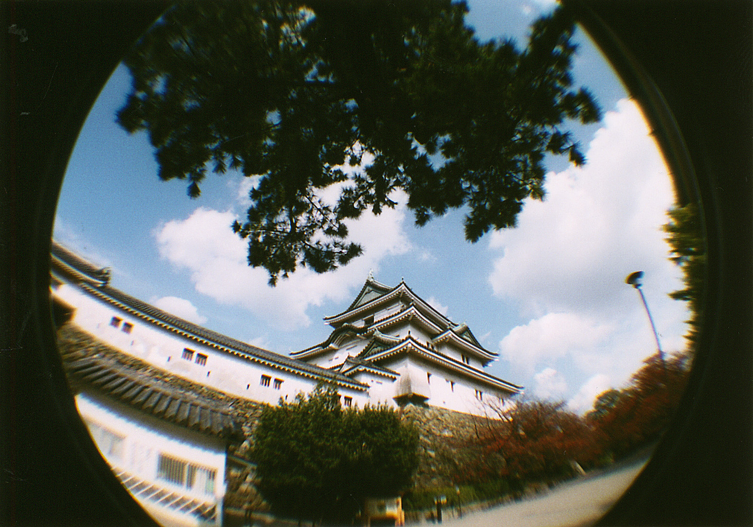 This photograph shows Wakayama Castle in the city of Wakayama, Wakayama Prefecture, Japan. I took the photo using a Fisheye Camera by Lomographic Society International and release all my rights in the file to the public domain; individuals and organizations retain rights to images in it.